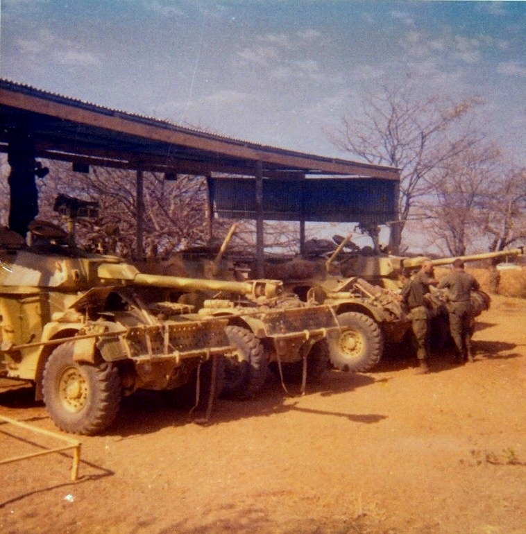 Eland armoured cars of "D" Squadron, 2 South African Infantry (SAI) Battalion sit in a staging area prior to Operation Savannah.